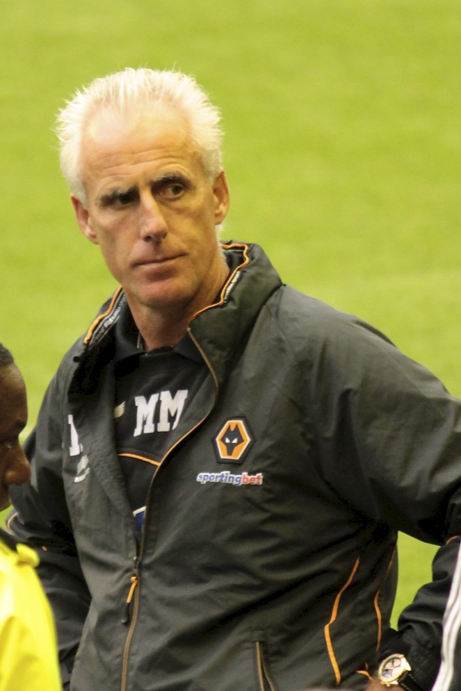 Mick McCarthy immediately after Wolverhampton Wanderers were defeated by Liverpool at Anfield, 24th September 2011.